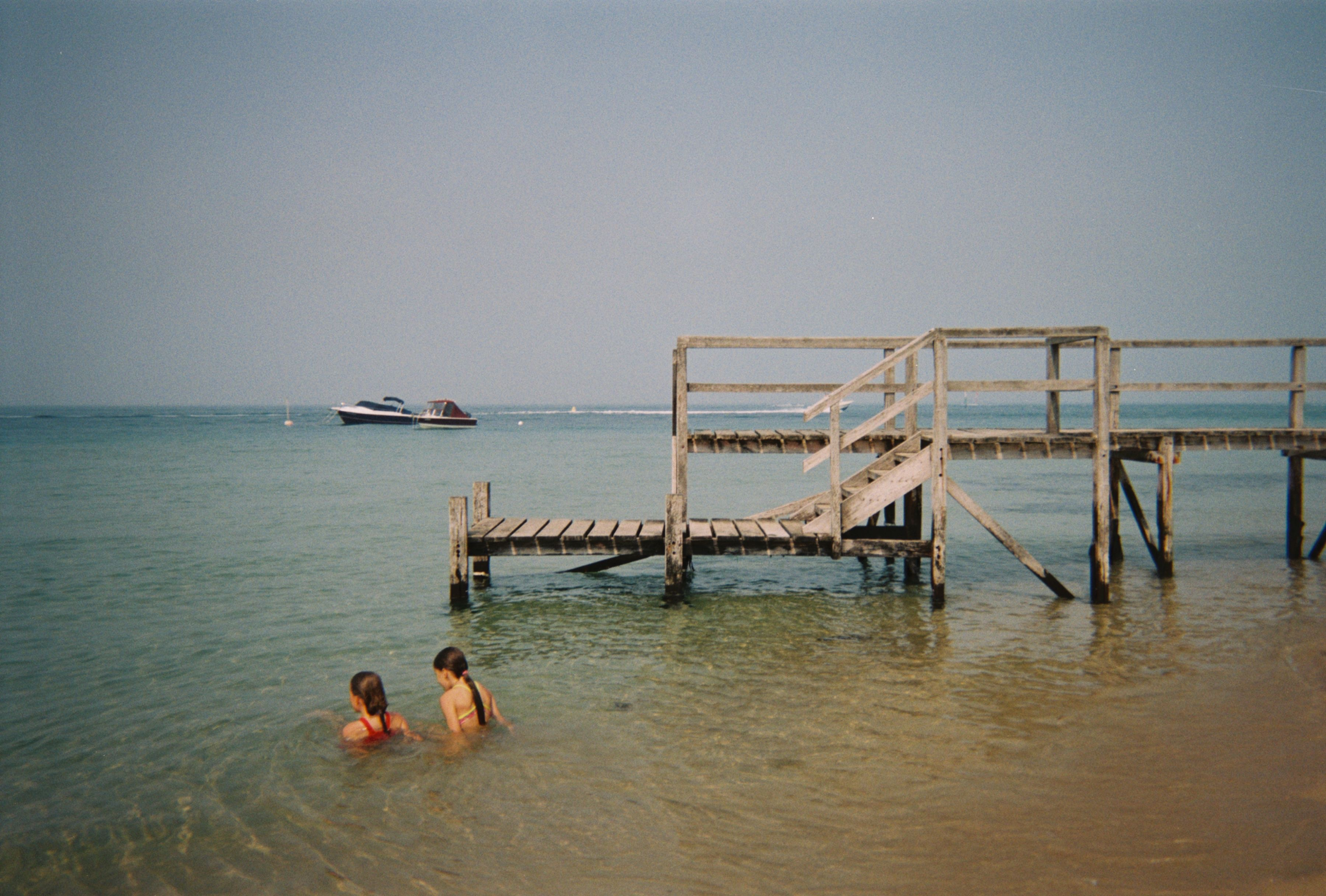 This image is of a calm beach in Portsea, Victoria. This beach has a wharf going out into the ocean for boats to pick up and drop off people.